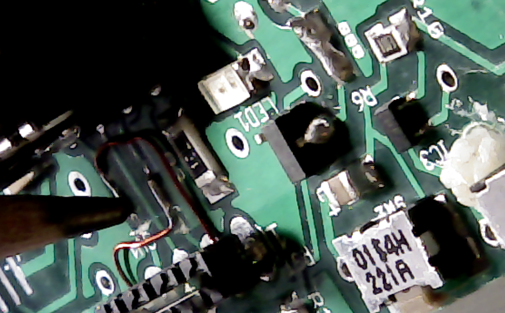 A 'barnacle' or engineering prototype fix in the form of two wires and cut tracks are shown on a printed circuit board. (pencil tip shown for scale)